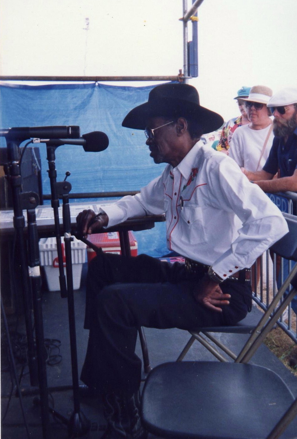 Clarence "Gatemouth" Brown being interviewed at WWOZ studio tent of New Orleans Jazz & Heritage Festival. Photo by Infrogmation, 1992